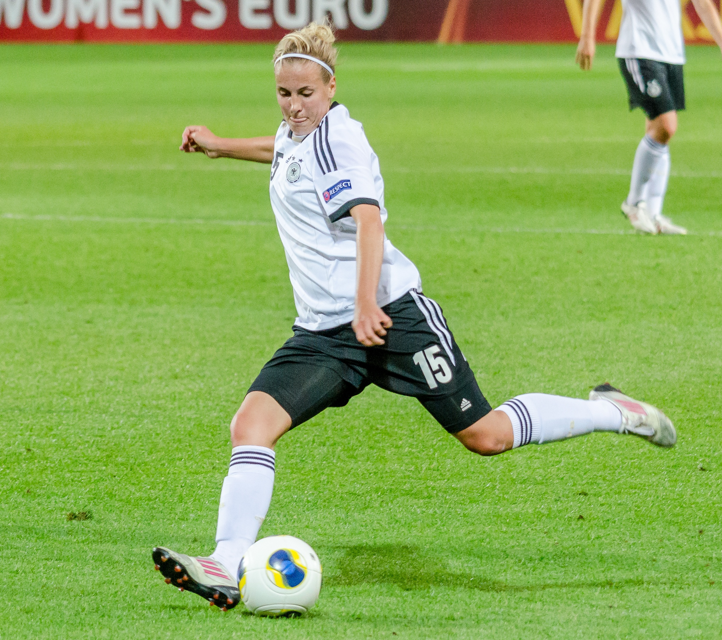 German football defender JenniferCramer playing a Group stage game against Iceland in the UEFA Women's Euro 2013 at Myresjöhus Arena in Växjö.